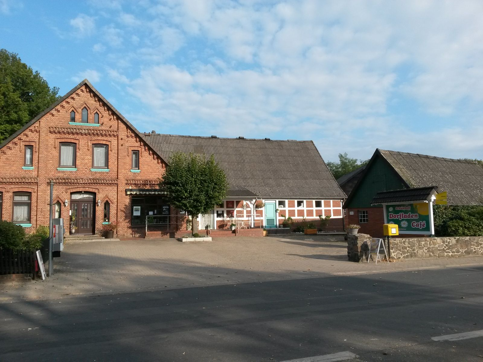 Shop Schünhoff in Otter